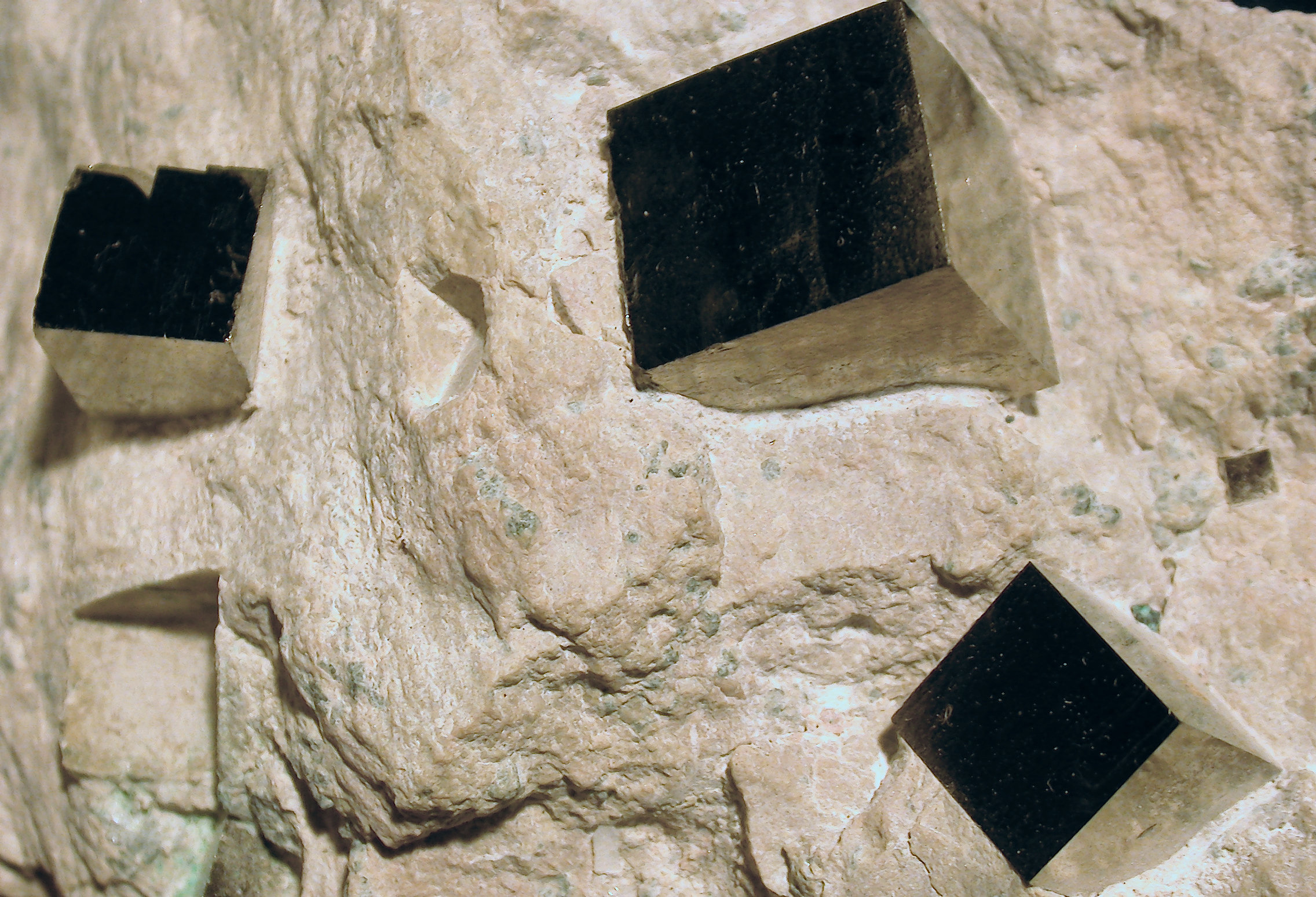 Pyrite cubes in mother rock